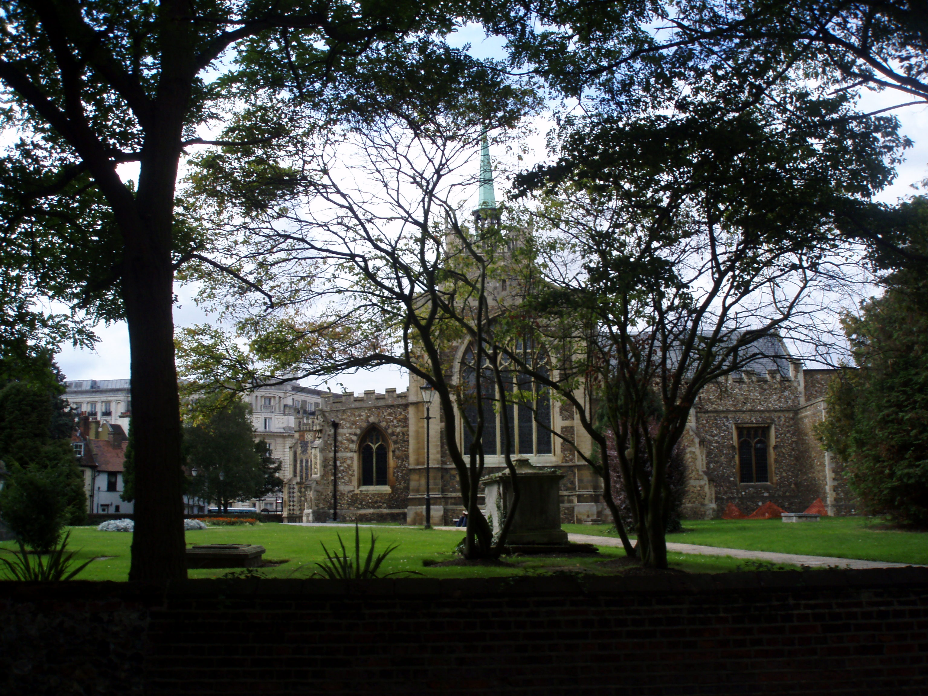 Cathedral of Chelmsford, England